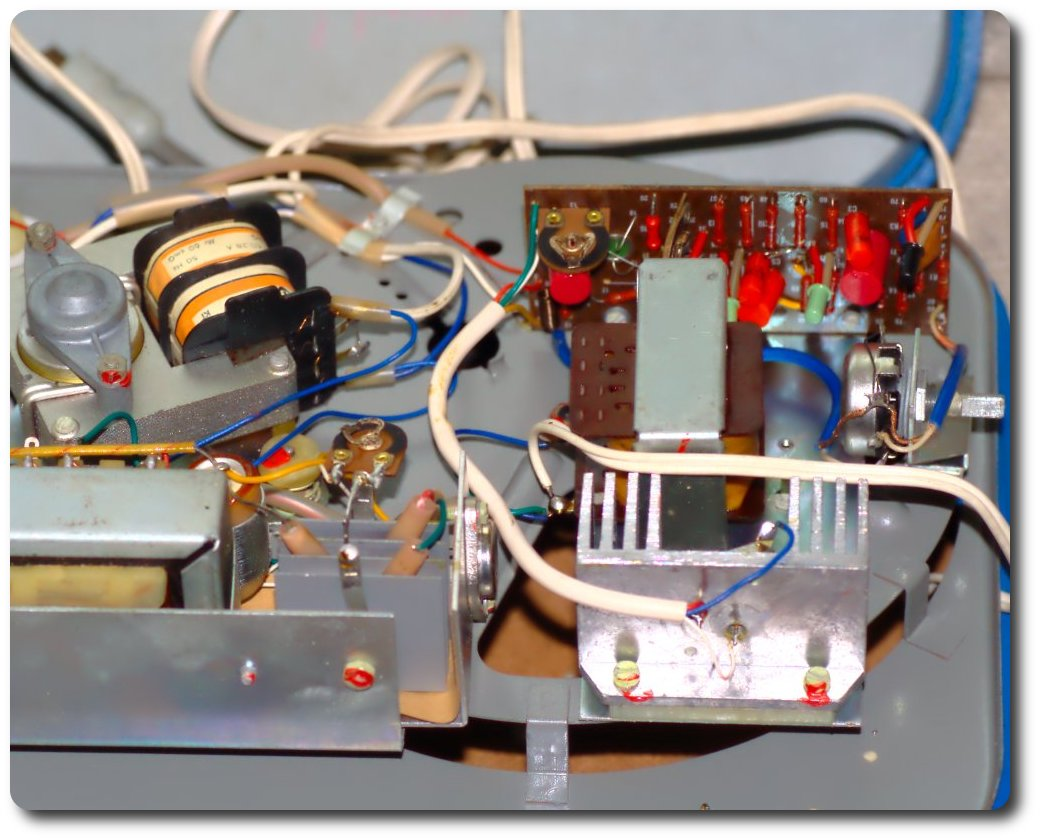 Polish gramophone Fonica Tranzyston